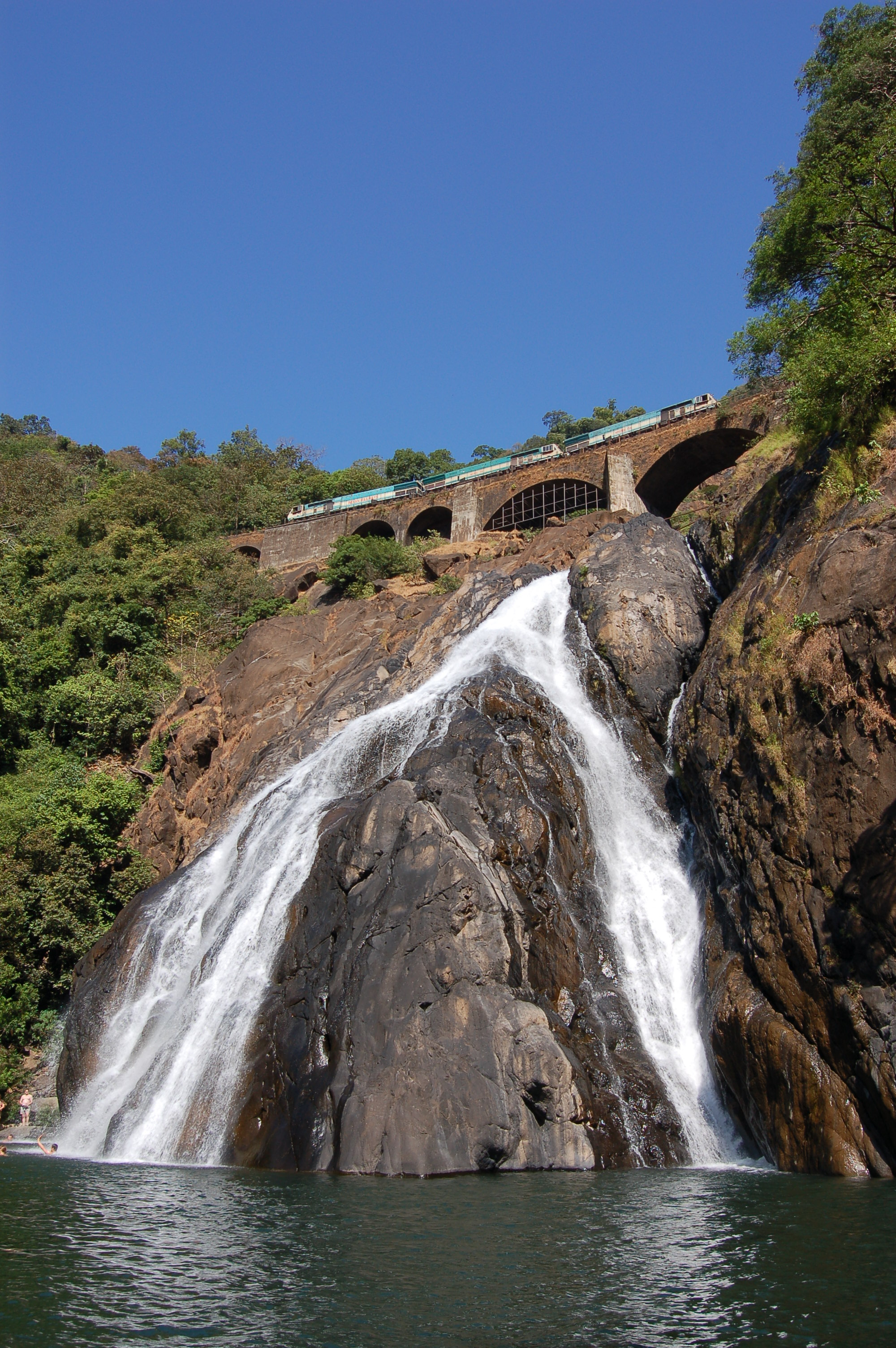 A trio of Indian Railways diesel-electric locomotives cross the railway bridge at Dudhsagar Falls on the Mandovi River in the state of Goa (and near the border with Karnataka), India.